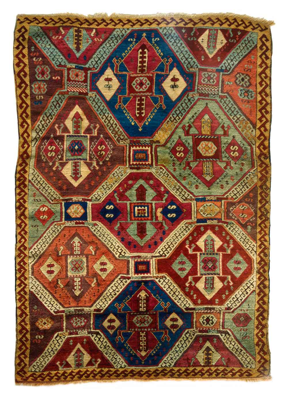 Kurdish Carpet with Hexagonal Compartments, Southeast Anatolia, early 19th century. Gift of James F. Ballard, 89:1929